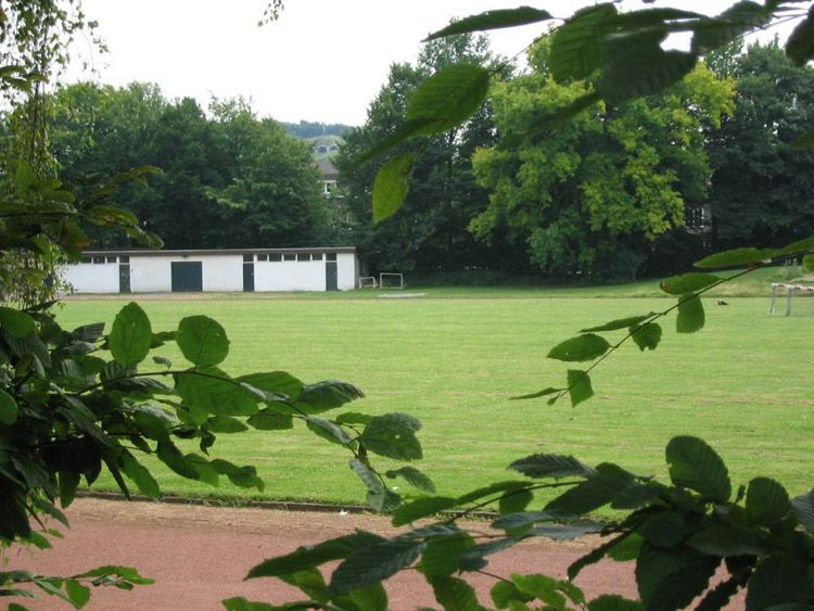 Maastricht, the Netherlands. View of sports field of Tapijnkazerne south of Prins Bisschopsingel